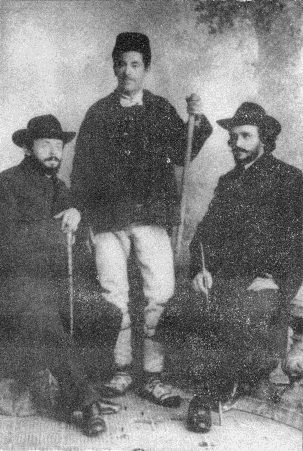 Teachers in Rila in 1904